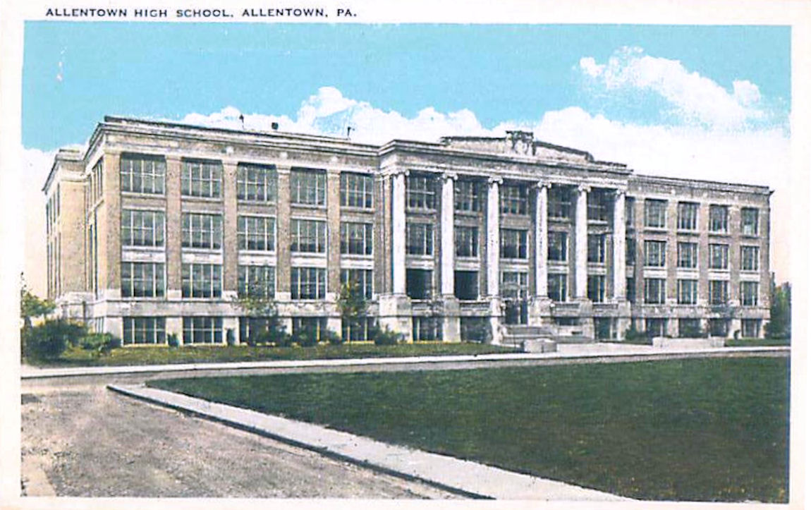 Postcard photo of Allentown High School, probably taken in 1919. The photograph was taken across the street from the front of the school on Webster Street. Note the grass empty lot on Seventeenth Street. This lot will have row homes erected on it during the 1920s. The streets are also unpaved, although a Lehigh Valley Transit streetcar line runs north and south of Seventeenth Street.